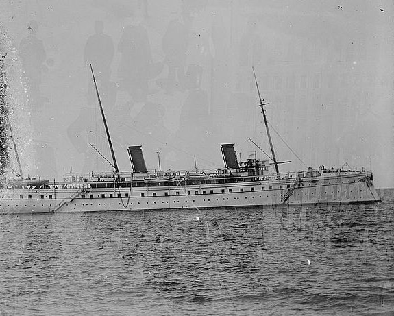 The yacht of the German emperor Wilhelm II, SMY Hohenzollern, at Haifa in 1898.